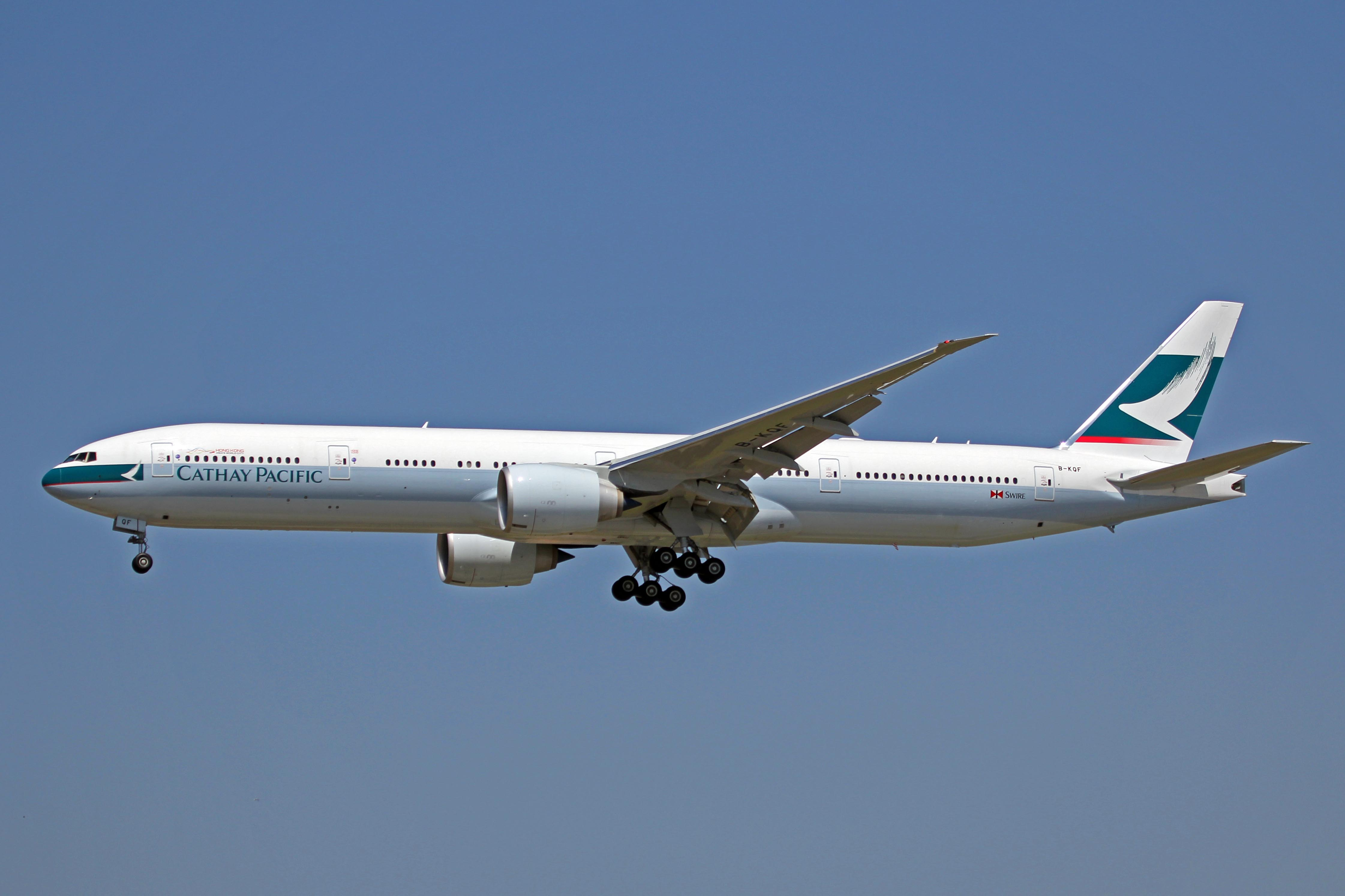 A picture of an airplane (name of it is on the file name).